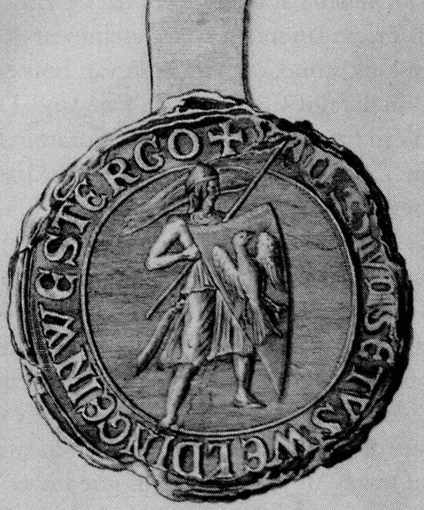 Seal of the meeting in Wons in Westergo (1270/1313)